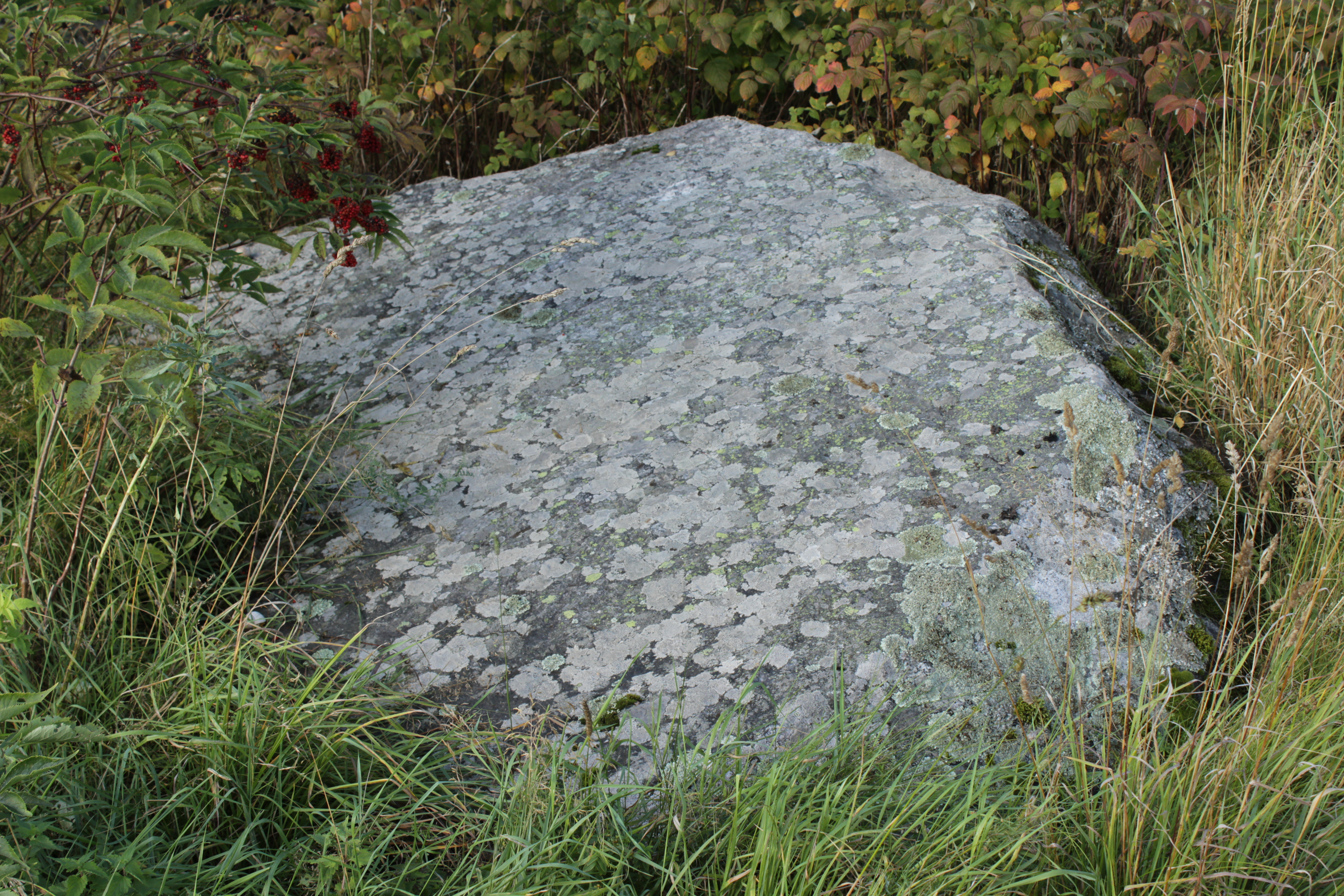 Runsten U 976 Råby Uppsala Sweden